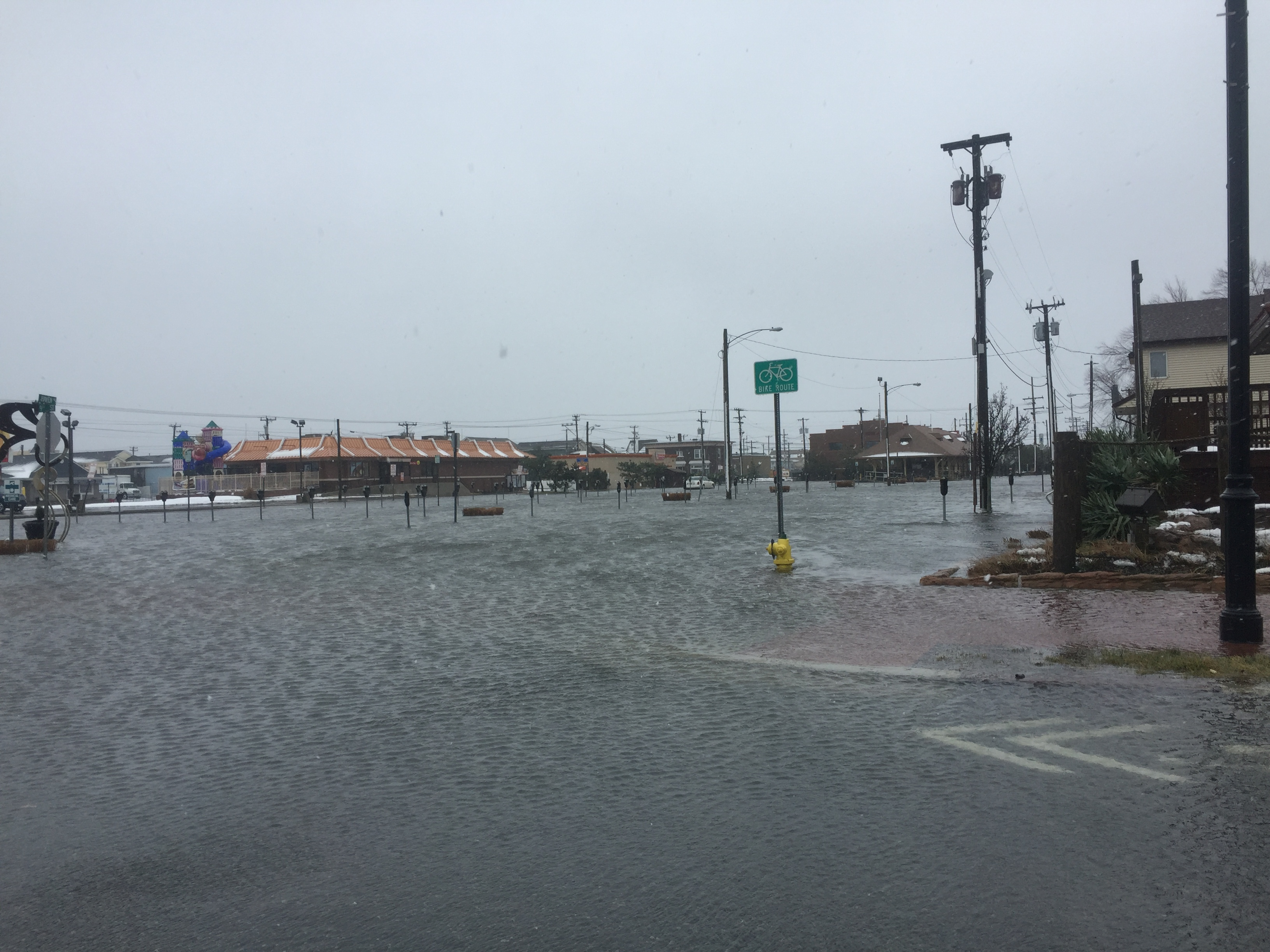 Flooding affecting the transportation center during the blizzard of 2016